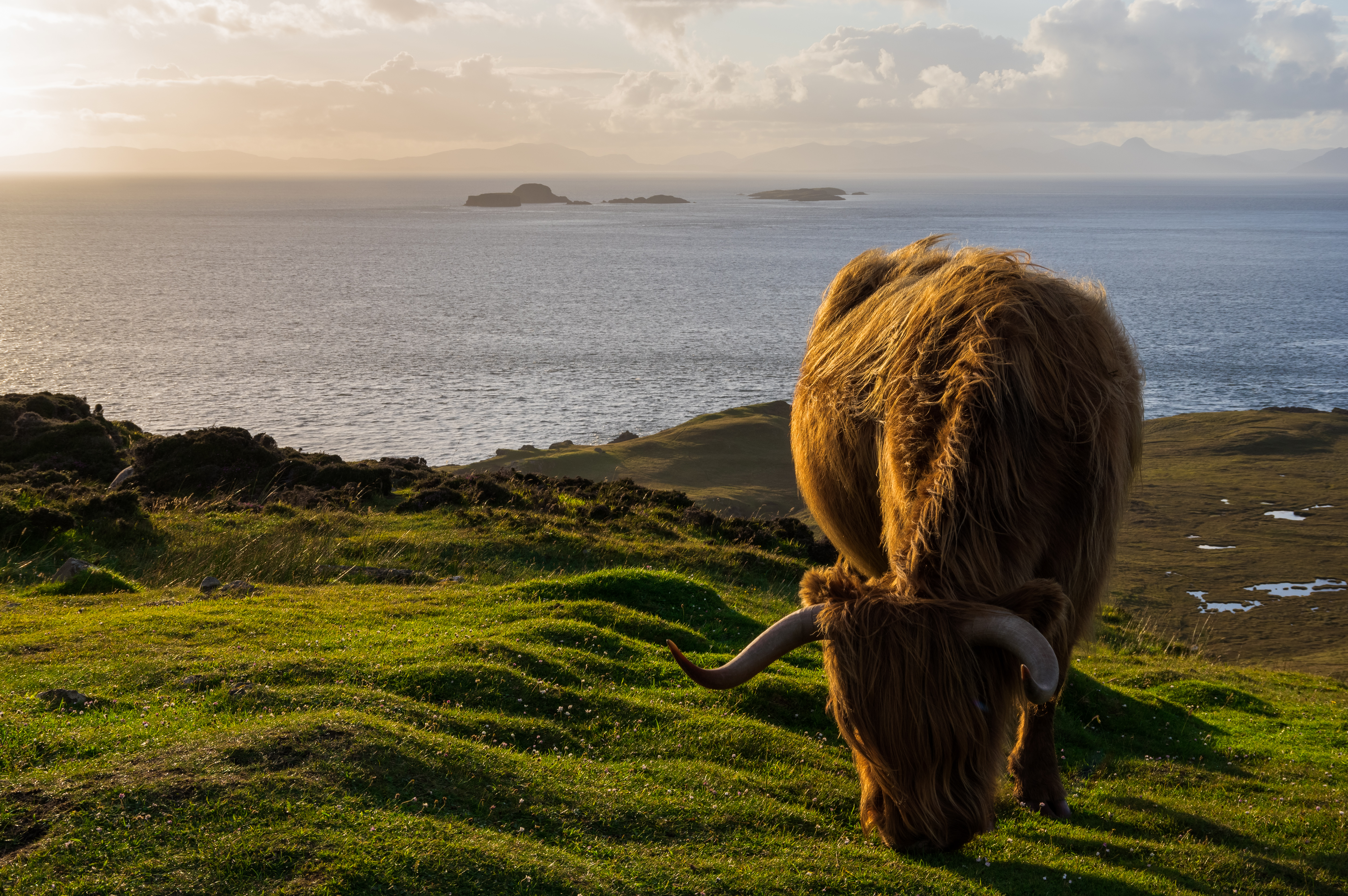 In some places on Isle of Skye, Scotland, the Scottish highland cattle can be seen without fencing in its natural environment. Rubha Hunish, IUCN Category III (Natural Monument)